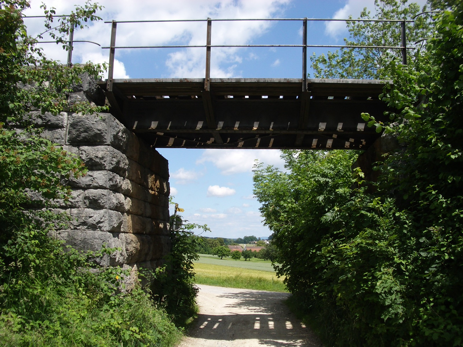 Oberhasli ZH, Switzerland